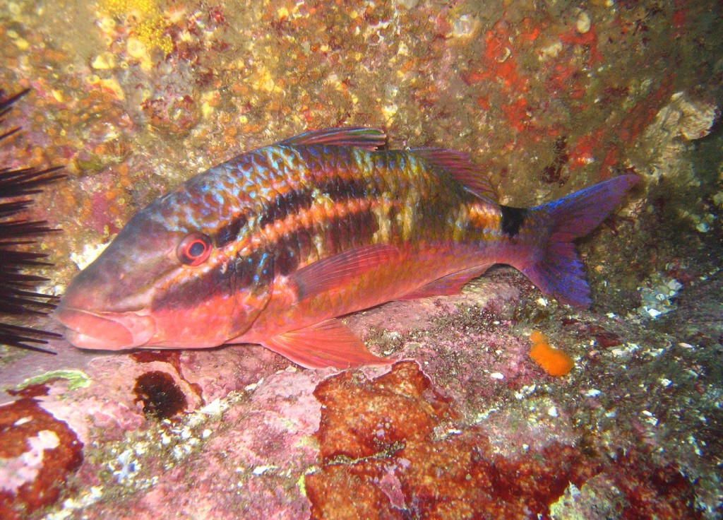 Black-spot Goatfish (Parupeneus spilurus). Aquarium, South West Rocks, NSW